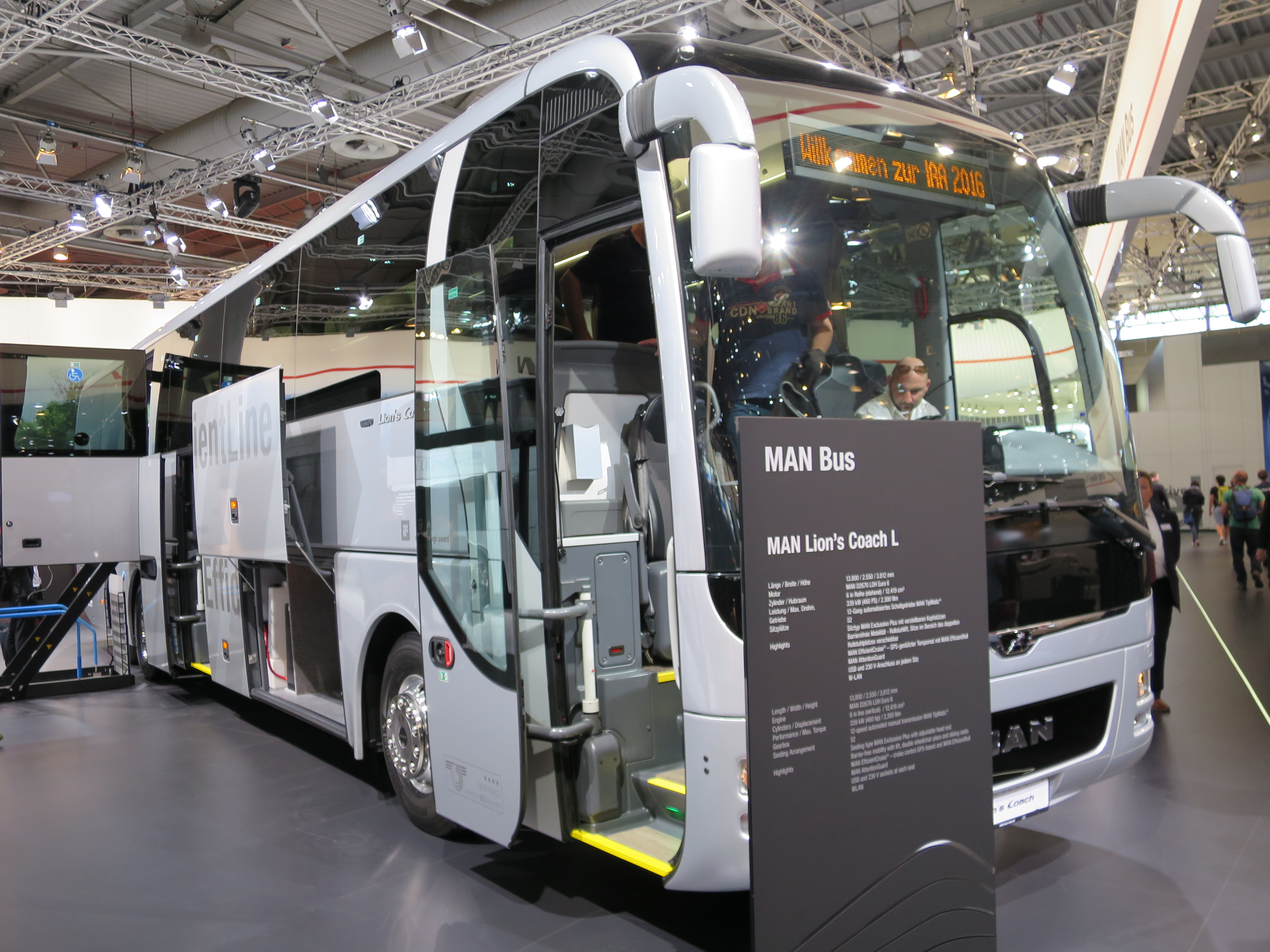 The making of this document was supported by Wikimedia Polska Association, within Wikigrant no. WG 2016-35. MAN Lion's Coach L